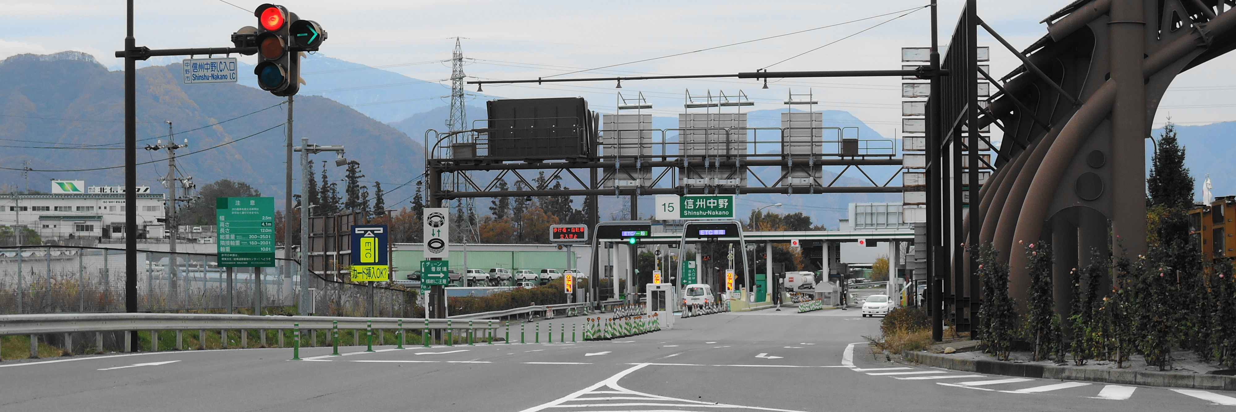 Shinshu-Nakano Inter Change, Nagano Prefecture, Japan